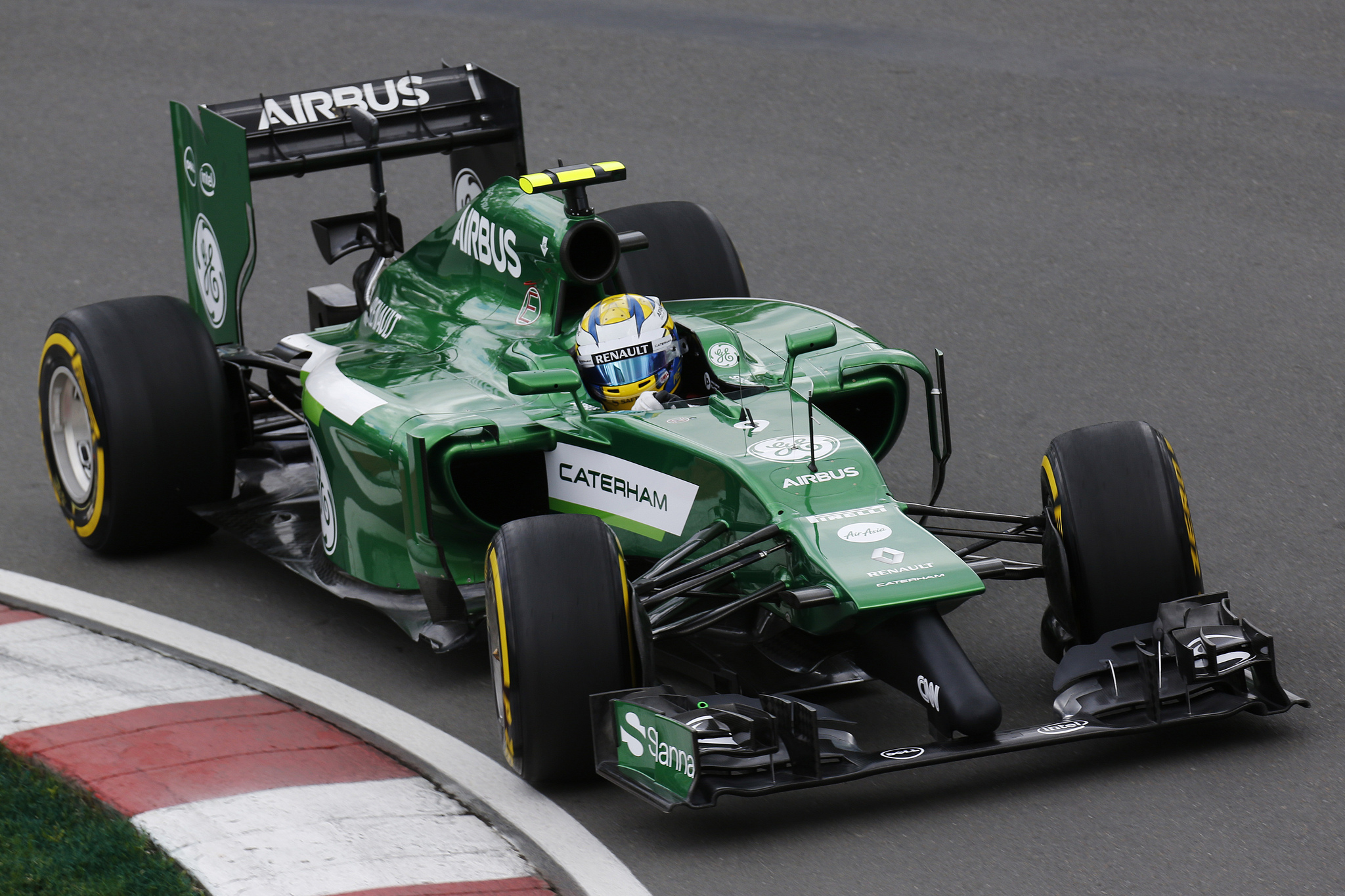 Swedish F1 driver Marcus Ericsson in his Caterham CT05.